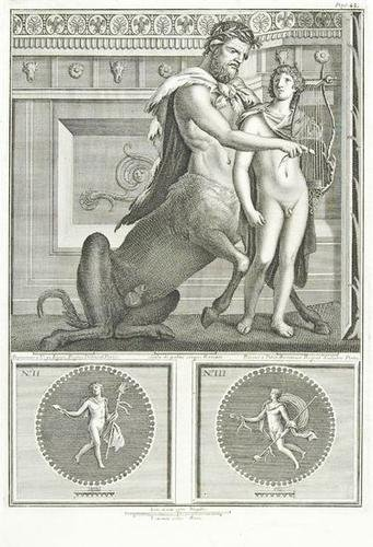 Centaur Chiron teaching Achilles to play lyre, from a wall painting in Herculaneum. Illustration from Le Antichità di Ercolano